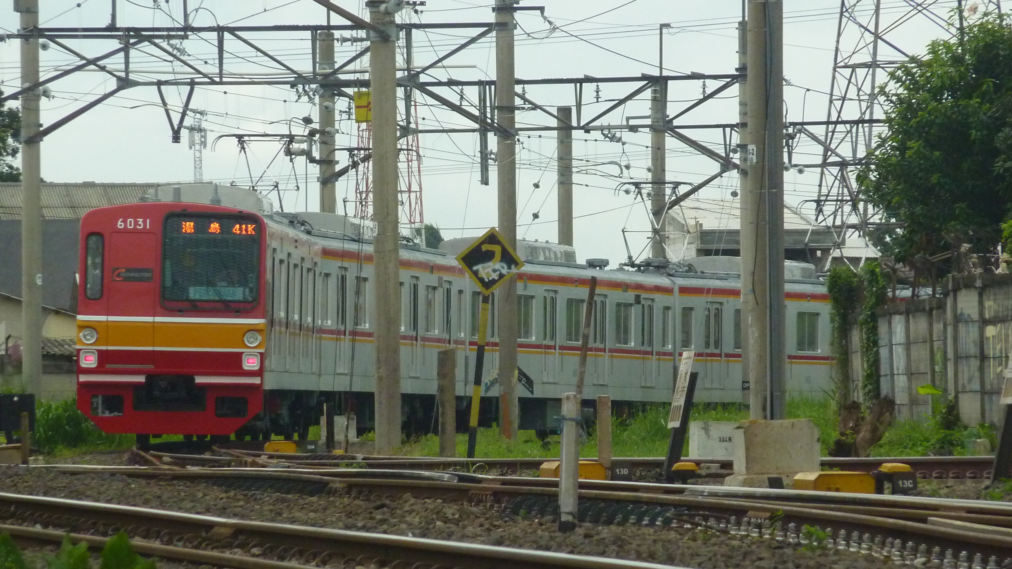 Former Tokyo Metro Chiyoda Line 6000 series EMU set 6131 leaving Depok Depot as it prepares for a test run in Indonesia